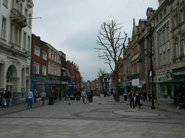 Buttermarket Street, Warrington Pedestrianised shopping street in the centre of Warrington.